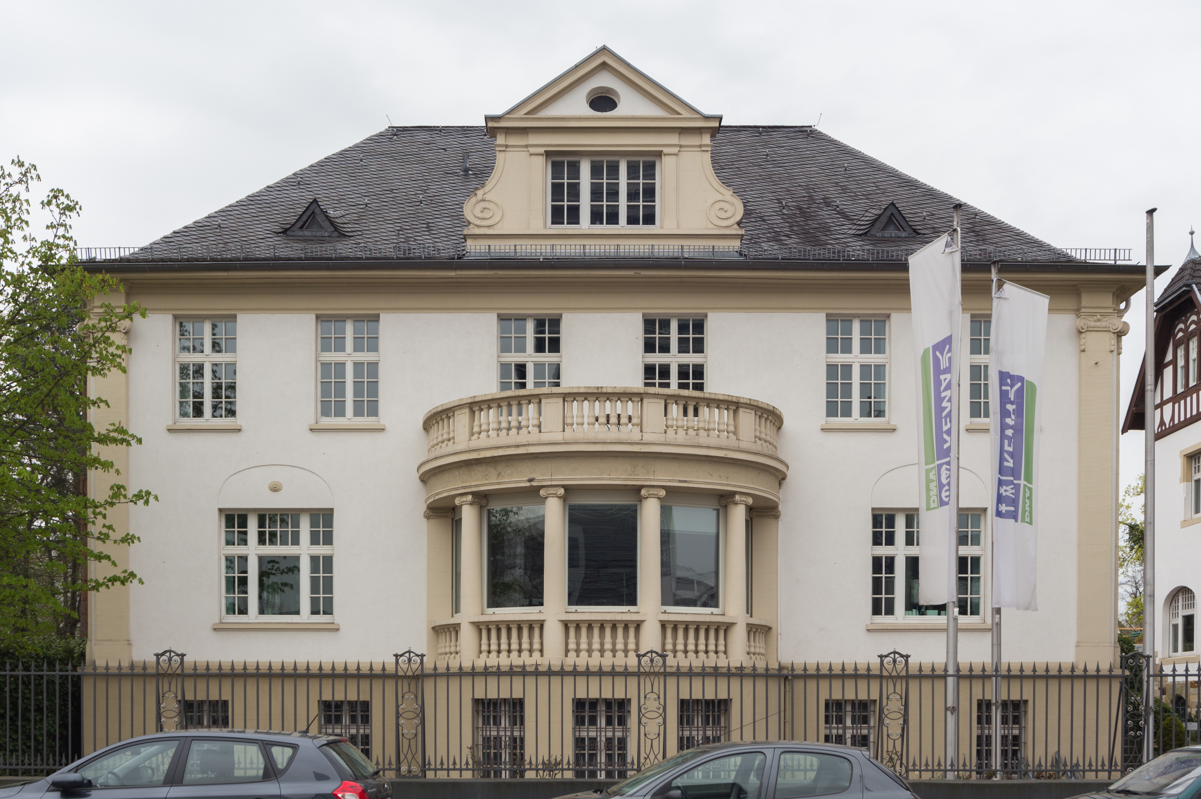 Former building of the Representation of the State of Hesse to the German Federal Government, Kurt-Schumacher-Straße 8, Bonn; view from northeast